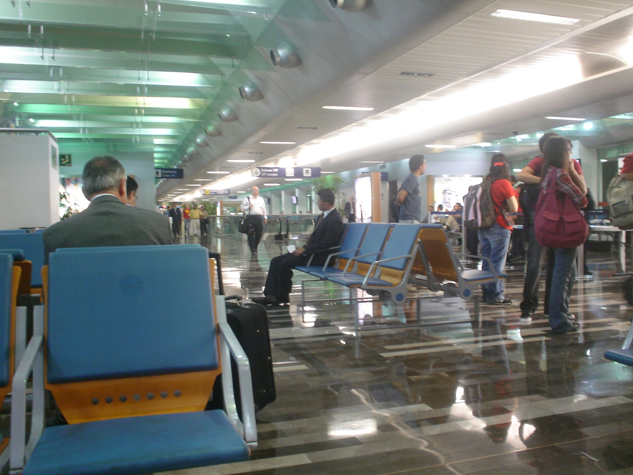 International Hall at Monterrey International Airport.